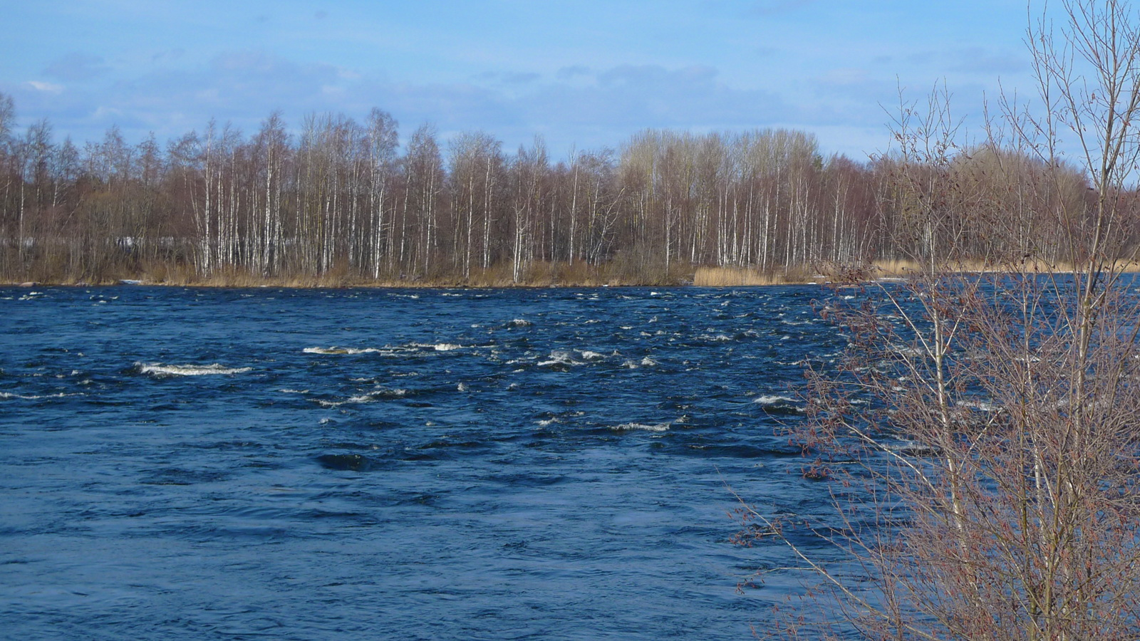 Burnaya River